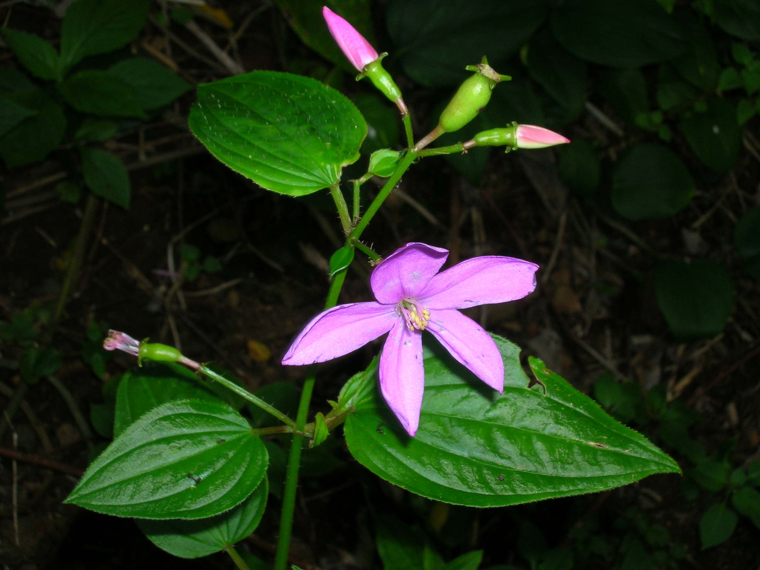 Arthrostemma ciliatum (flower). Location: Oahu, Nuuanu